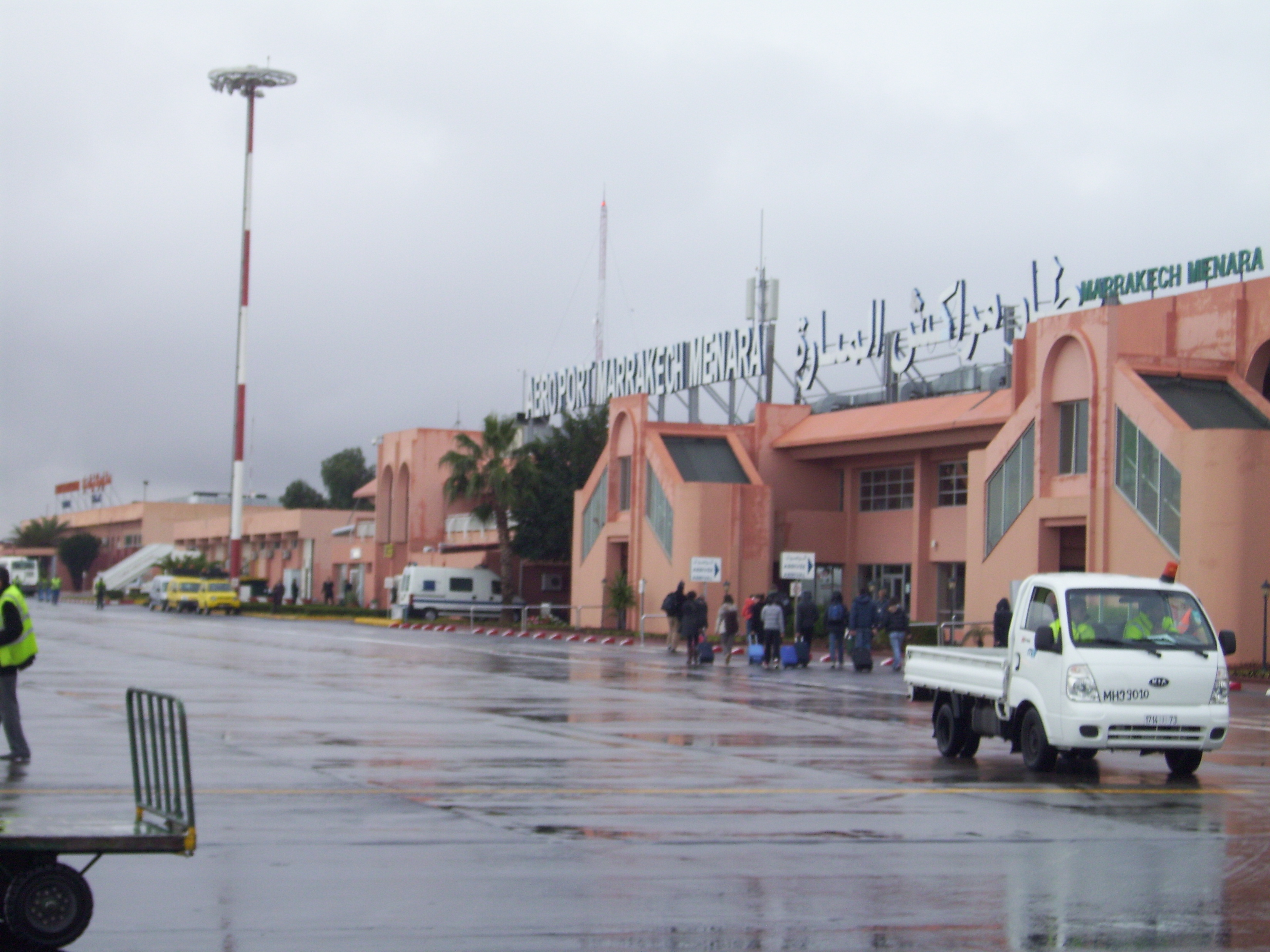 Marrakech airport